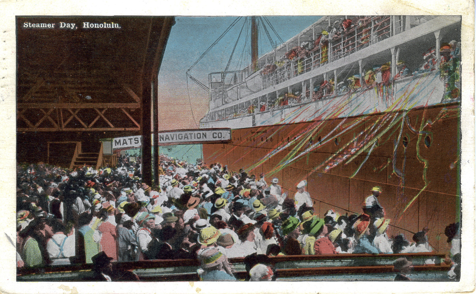 In this postcard sent in October, 1934, a Matson line steamer ship departs from Honolulu, Hawaii. The message on the back reads: "This is the way a boat leaves nearly every Saturday. We take our mail down so that it is sure to get started on its way. There is always a crowd down to see it go. The people on the boat throw confetti and the band plays so it is quite an occasion…" The card was sent by a woman who went to the Territory of Hawaii to take up teaching.